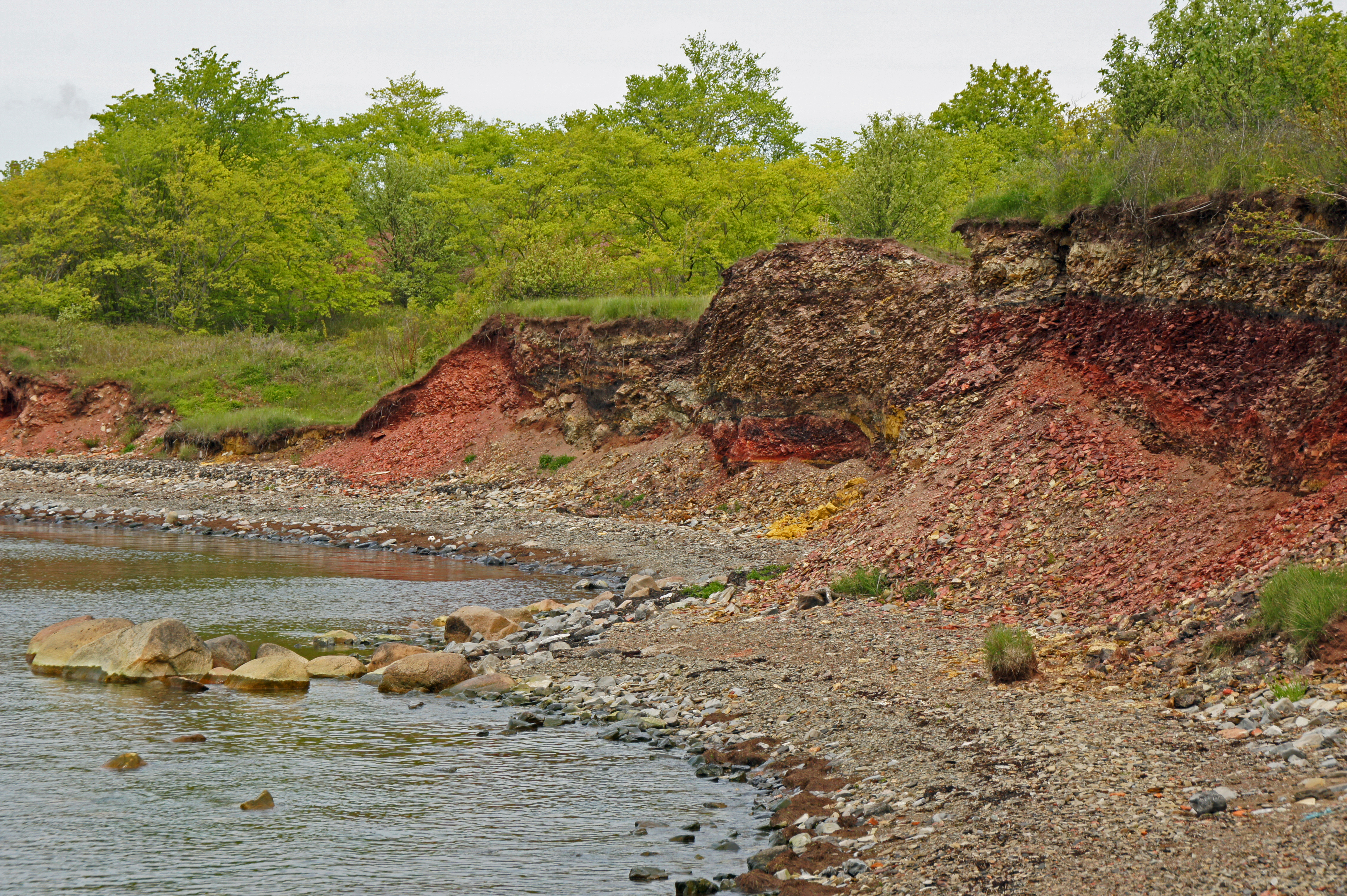 Red rocks (Rödfyr) from the alum shale of Öland. Södra Bruket near Degerhamn, southern Öland.